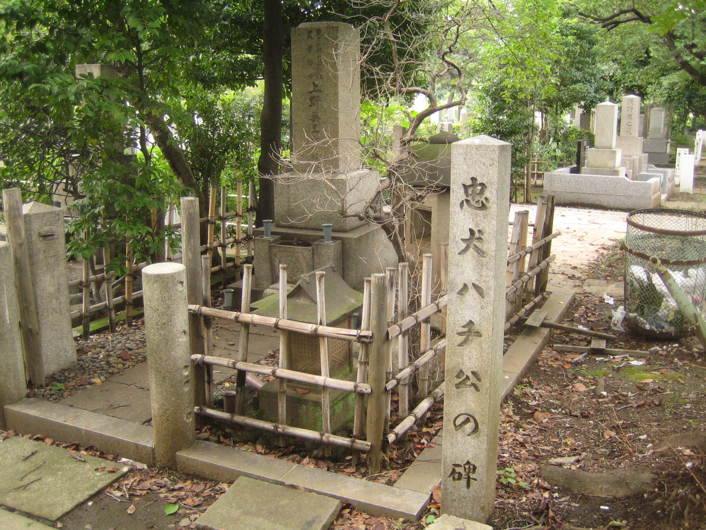 Grave of Hidesaburo Ueno (上野 英三郎 Ueno Hidesaburō) and monument of Hachiko (ハチ公 Hachikō), located at Aoyama Cemetery (青山霊園 Aoyama Reien) Minami-Aoyama, Minato, Tokyo, Japan